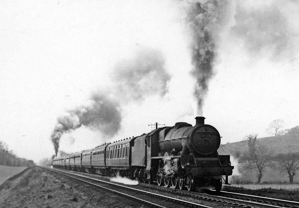 The struggle up the Lickey Bank. View southward from about a half-mile below the summit at Blackwell, Burcot Hill is on the right. An Up express from Bristol seems to be reduced to about 10 mph as it blasts up the two miles of the 1-in-37 Lickey Bank, banked by the devoted 0-10-0 'Big Bertha'. It was a marvellous sight and sound - and the firemen are obviously working very hard.